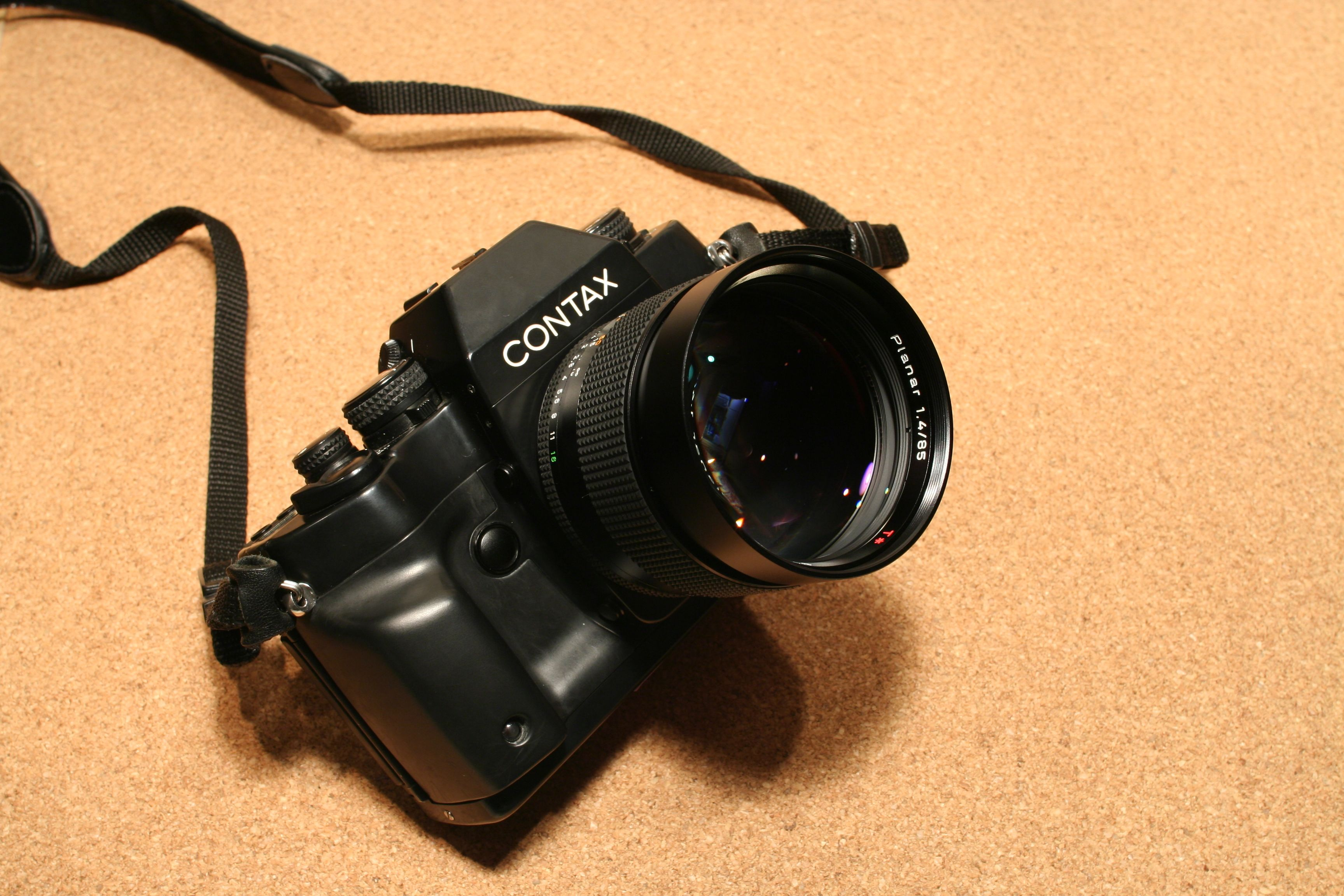 an SLR camera by Kyocera